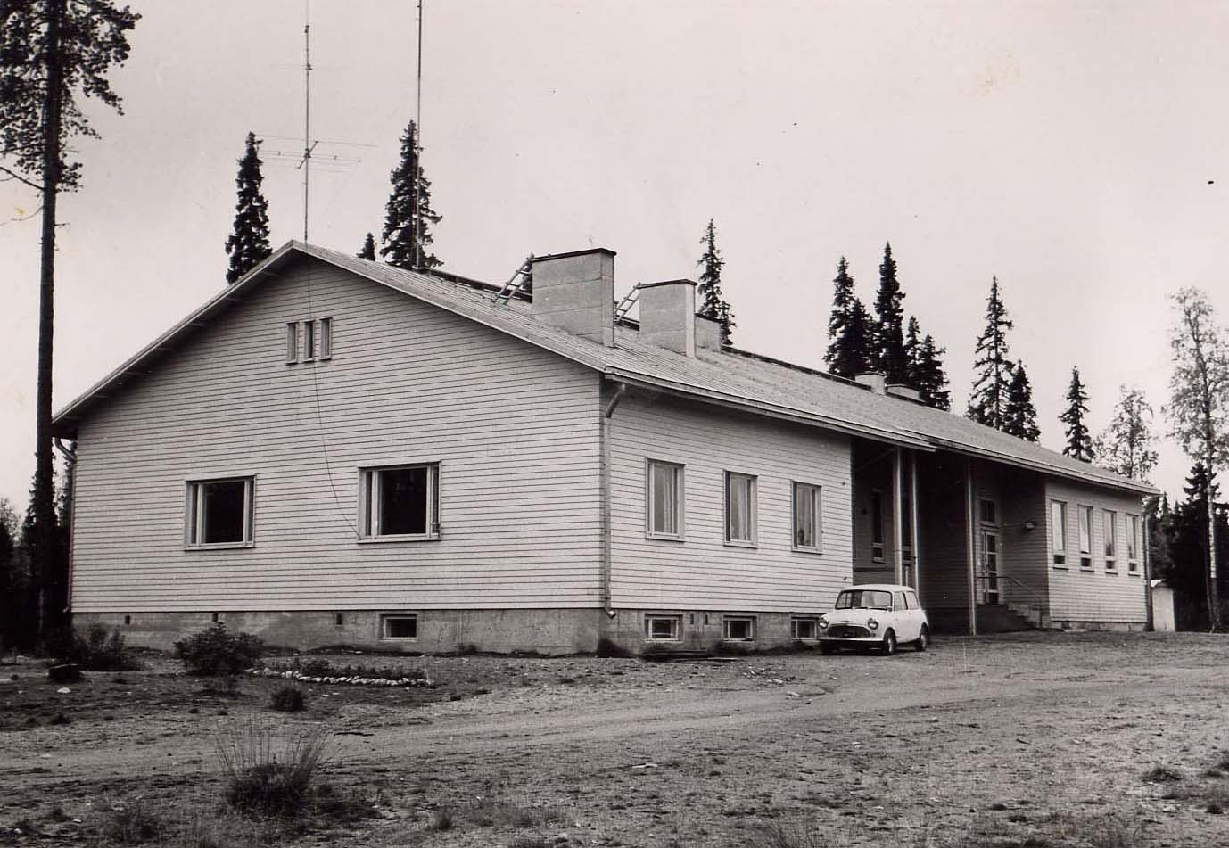 Pesiönlahti school, Suomussalmi, Finland in 1962